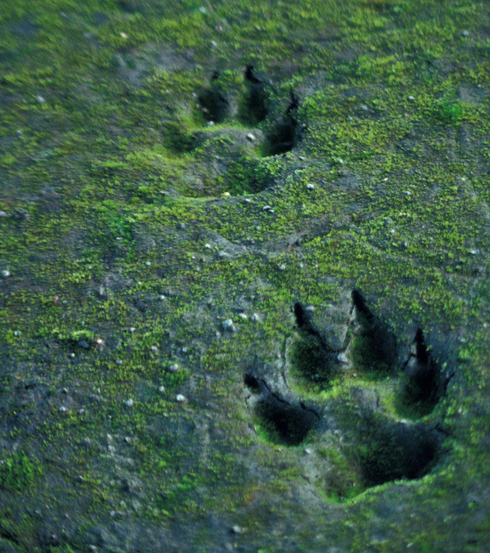 Gray wolf tracks in surficially dried muddy soil